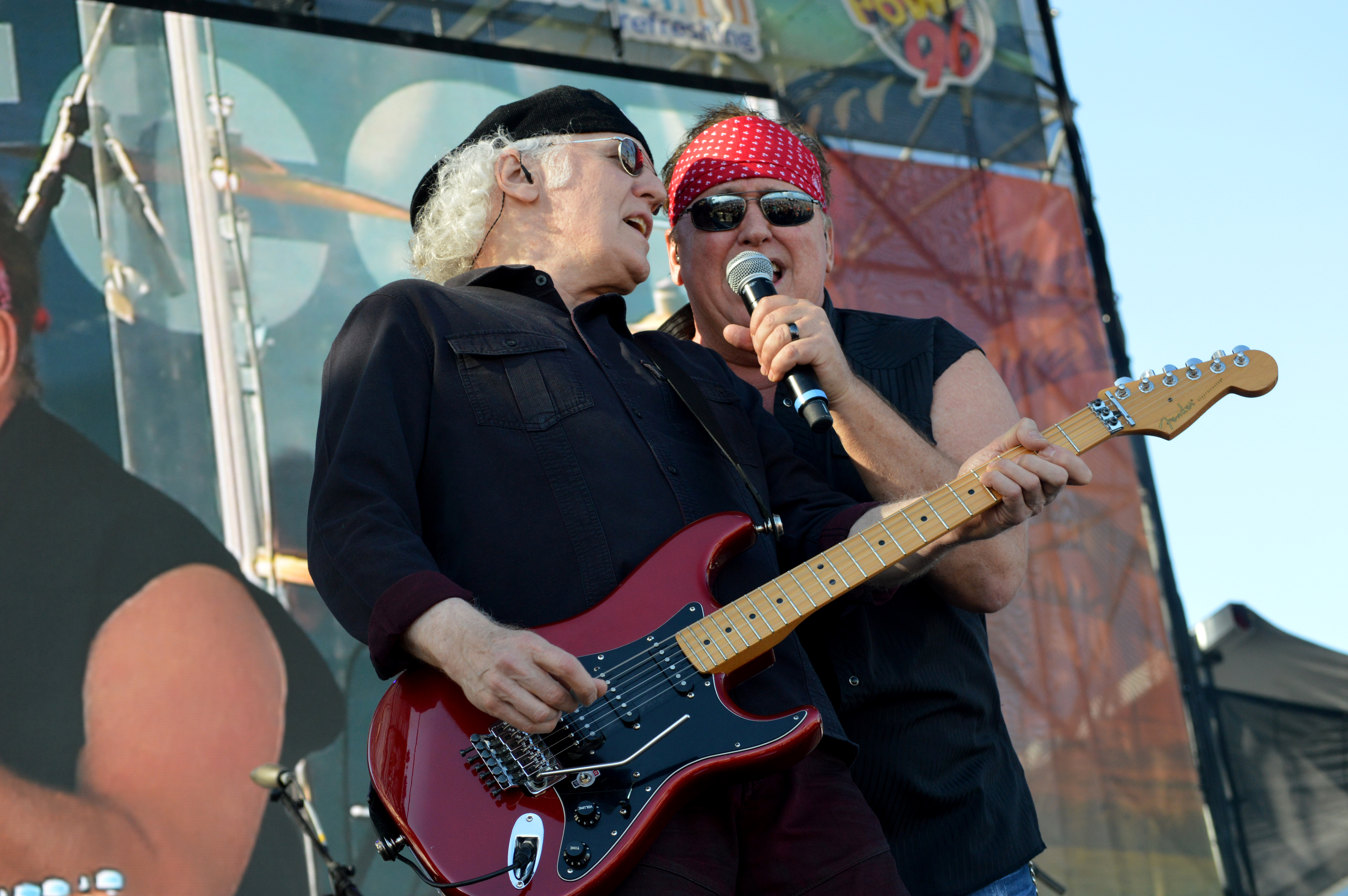 Original Loverboy band members Mike Reno and Paul Dean performing at Riptide Music Festival in Ft. Lauderdale Beach, Florida on December 3, 2017.